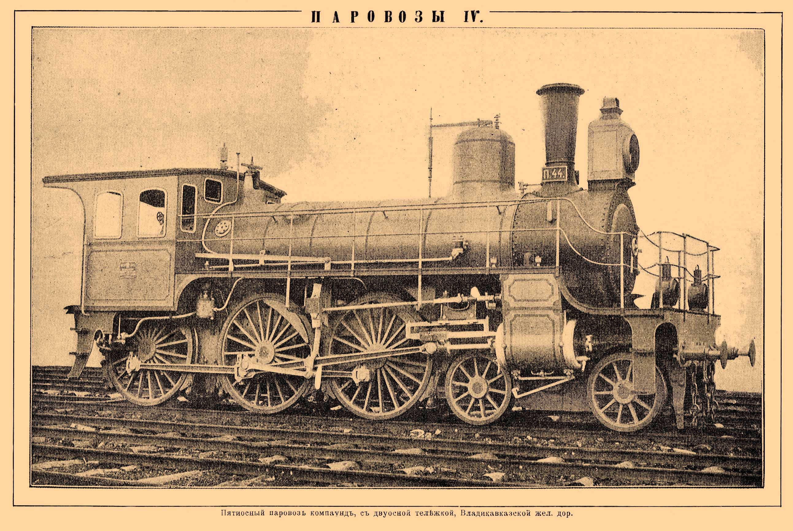 Illustration from Brockhaus and Efron Encyclopedic Dictionary (1890—1907). Russian ADK class locomotive by Kolomna factory, 1892, of Vladikavkaz railway